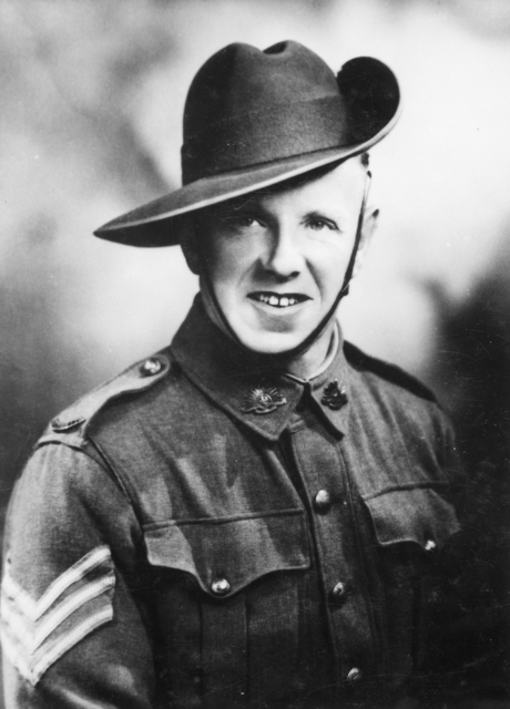 Portrait of Sergeant William Henry Kibby VC, an Australian recipient of the Victoria Cross during the Second World War.